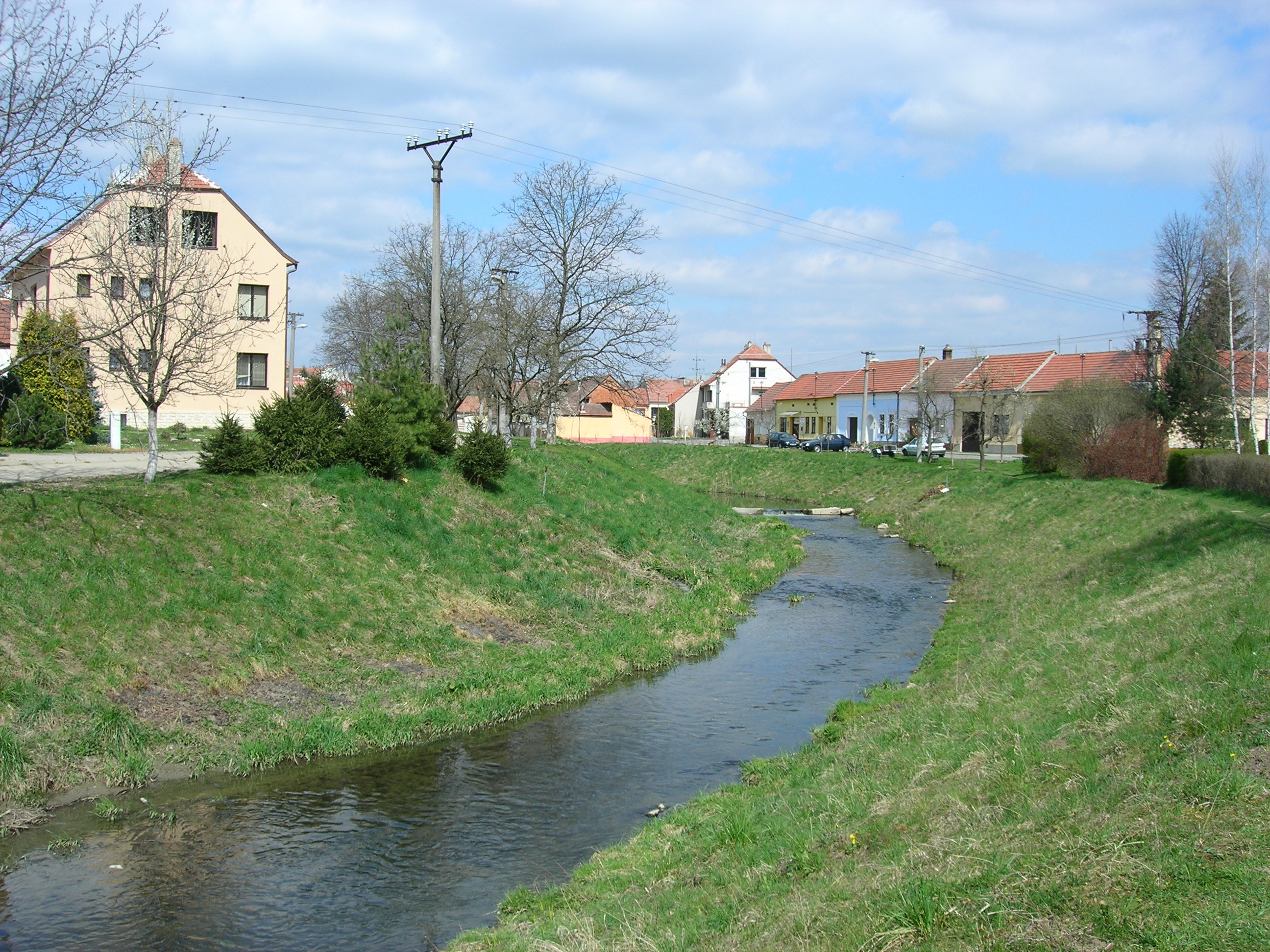 River Okluky in Ostrozska Lhota, Czech Republic